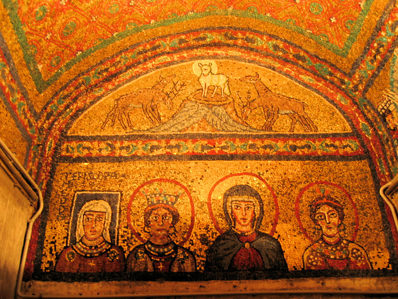 Cappella di San Zenone, Chiesa di Santa Prassede, Roma The 9th century mosaic shows the Lamb of God and four feminine busts, Theodora, St. Praxedis, the Virgin Mary, and St. Pudenziana